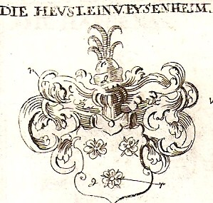 Coat of arms of the Heusslein von Eussenheim family.